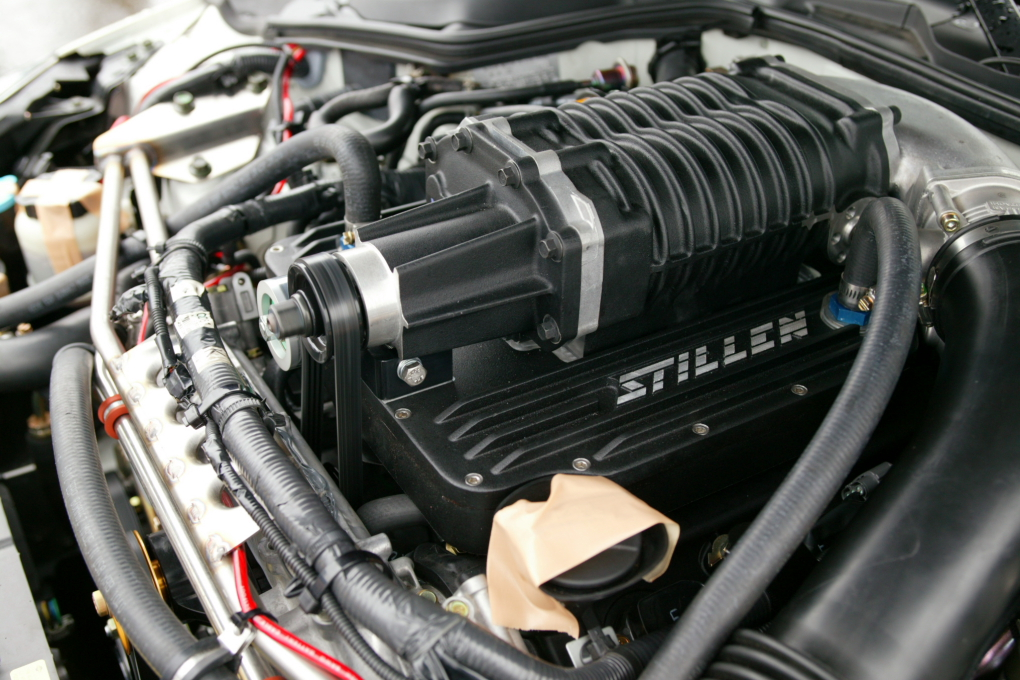 Eaton MP62 Roots type supercharger.